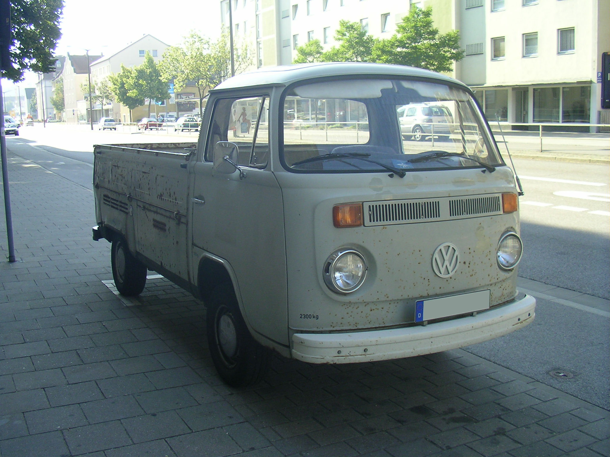 Volkswagen T2b Pickup